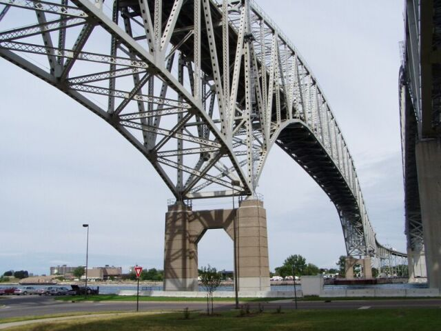 The Original 1938 Bluewater Bridge